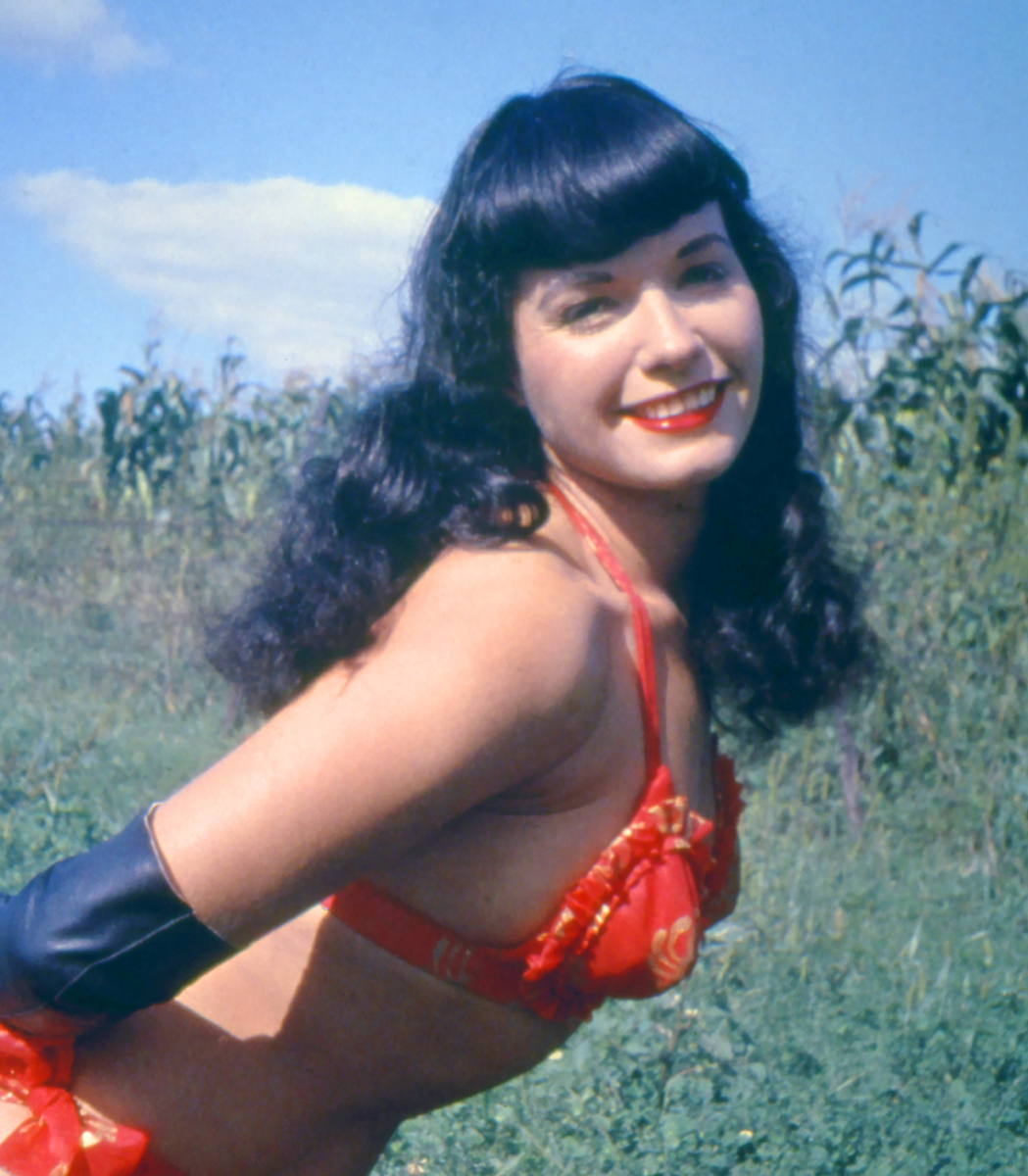 Bettie Page TM is a Trademark of Bettie Page LLC Licensed by CMG Worldwide, Inc. Photo released by CMG Worldwide for its free use (as shown in permission below)